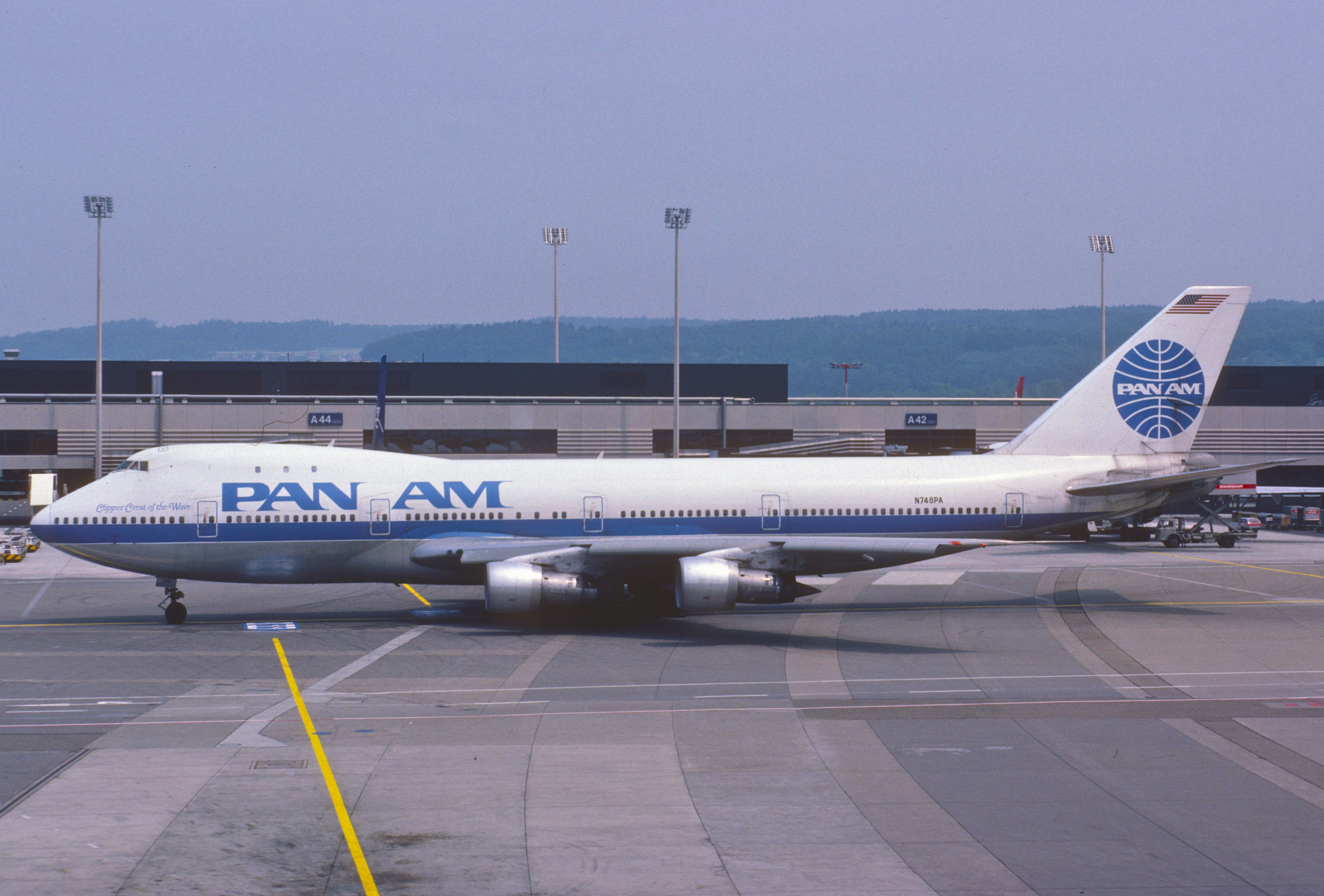 'Clipper Crest of the Wave' taxiing at Zurich... This Boeing 747-121 took its first flight on March 15, 1970...(c/n 19652/ 26) 31/03/1970 Pan Am N748PA converted 747-121F - scrapped In 1993